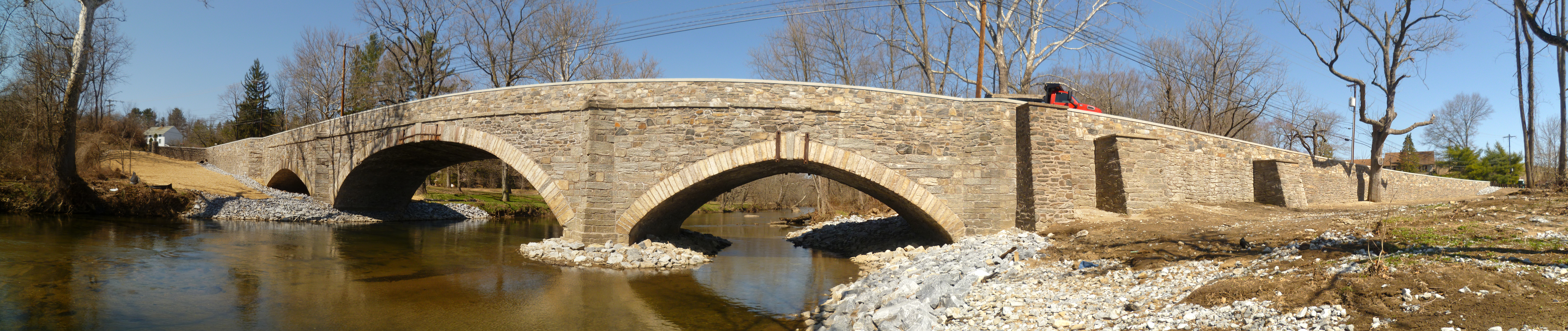 Panorama of Copes Bridge shortly before reopening in 2011.